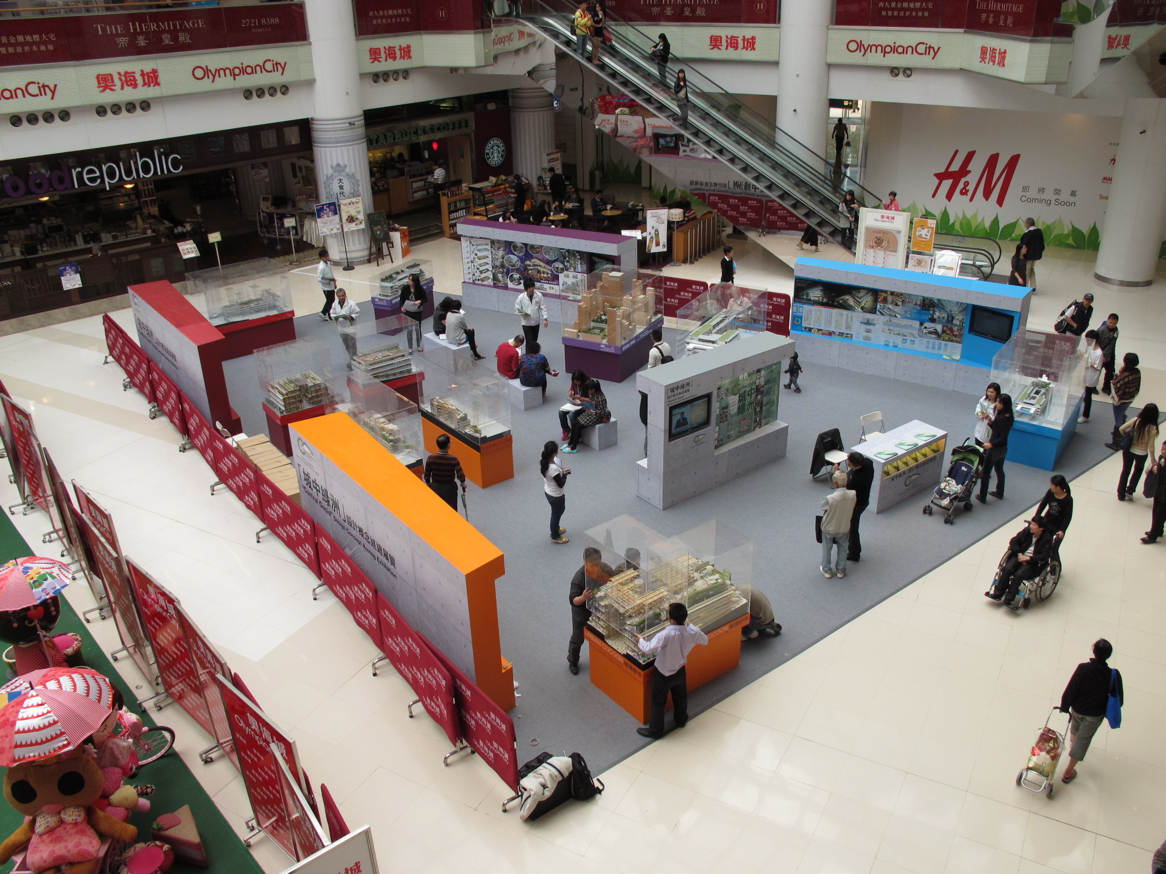 Travelling exhibition about the Old Central Market Renewal Exhibit by Urban Renewal Authority. Here in Olympian City.